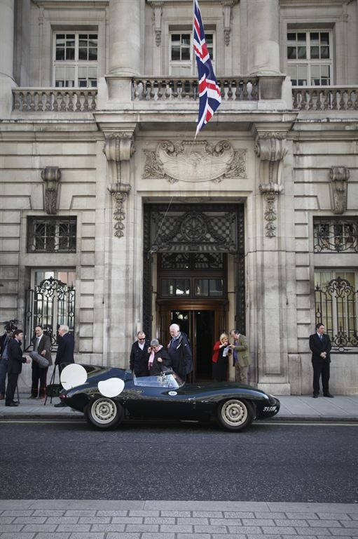 Jaguar Heritage Racing Press Conference, D-type